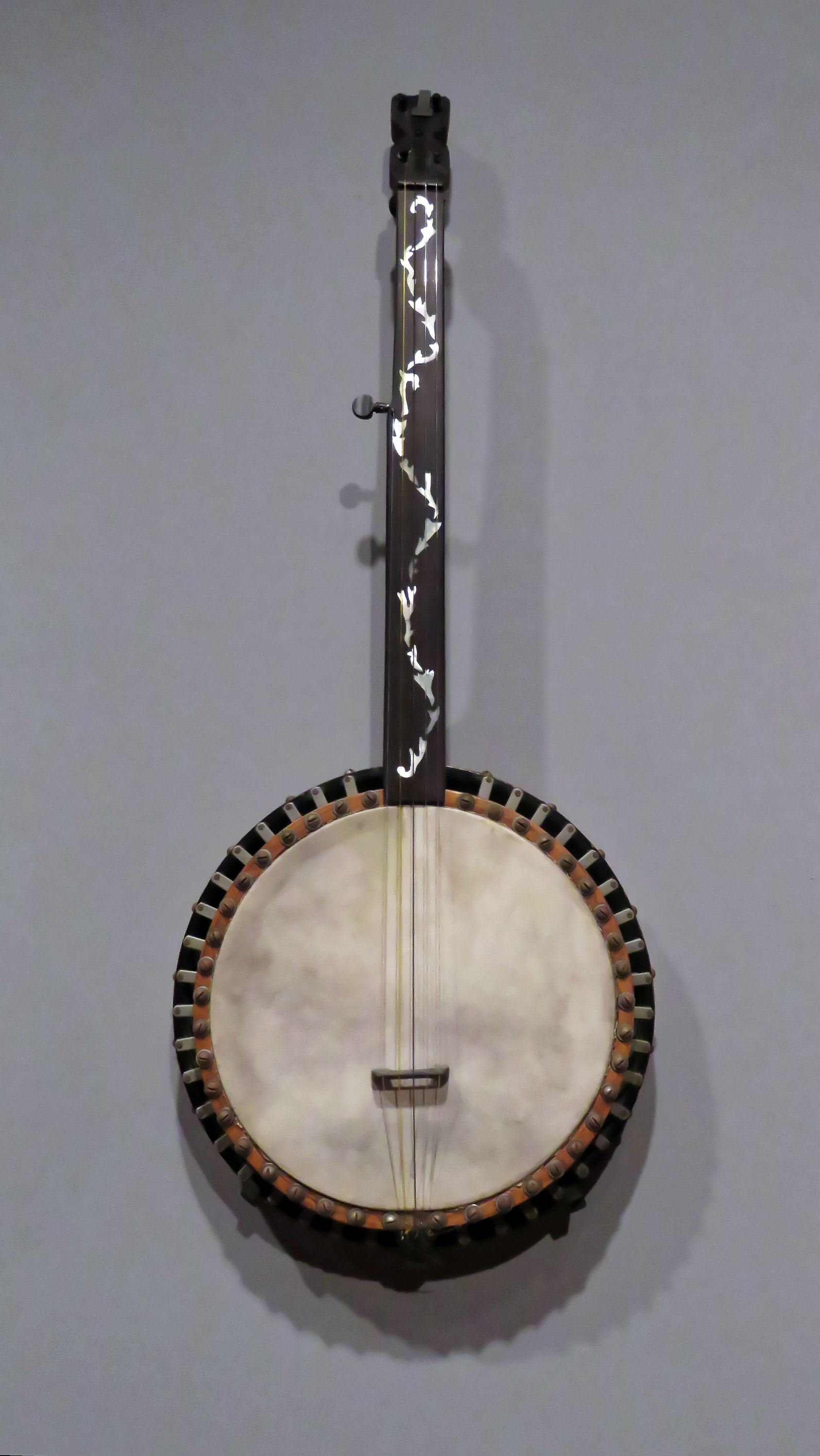 Tunbridgeware banjo, fretless and of walnut and goatskin vellum, c.1870, part of a jazz history exhibition at 2 Temple Place, aka Astor House, now an art exhibition space on Victoria Embankment, beside the River Thames in the City of Westminster, London, England. Certain items in the exhibition were marked with 'no photography'; for others, like this, photography was explicitly allowed.Camera: Canon PowerShot SX60 HS.Software: file lens-corrected and optimized with DxO PhotoLab Elite and Viewpoint 3, and further optimized with Adobe Photoshop CS2.